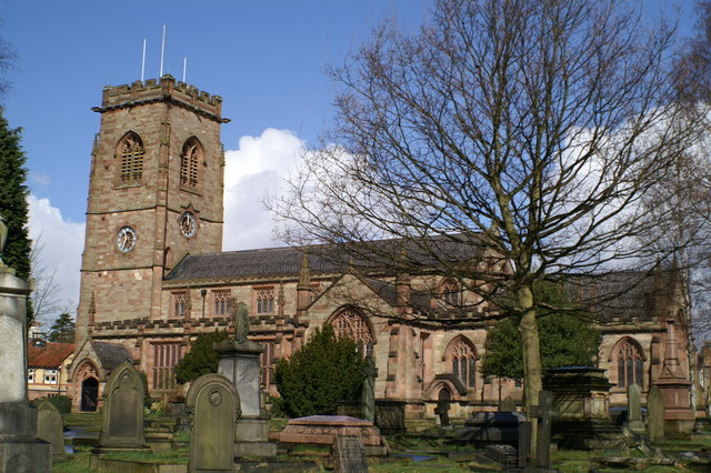 St Mary the Virgin parish church, Bowdon, Greater Manchester, seen from the southeast